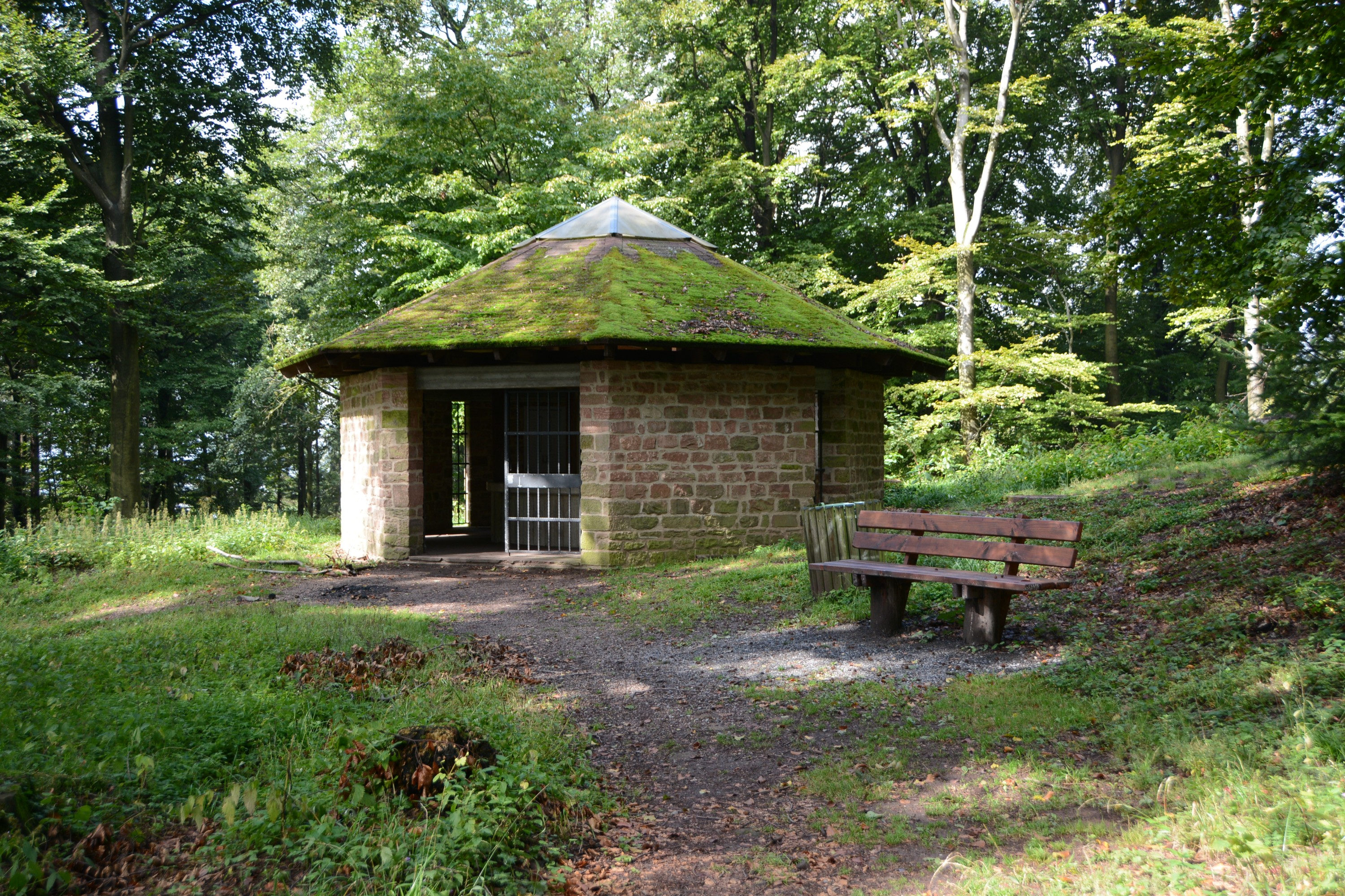 Heidenloch (Heidelberg) - this building covers the medieval shaft, 55 meters deep